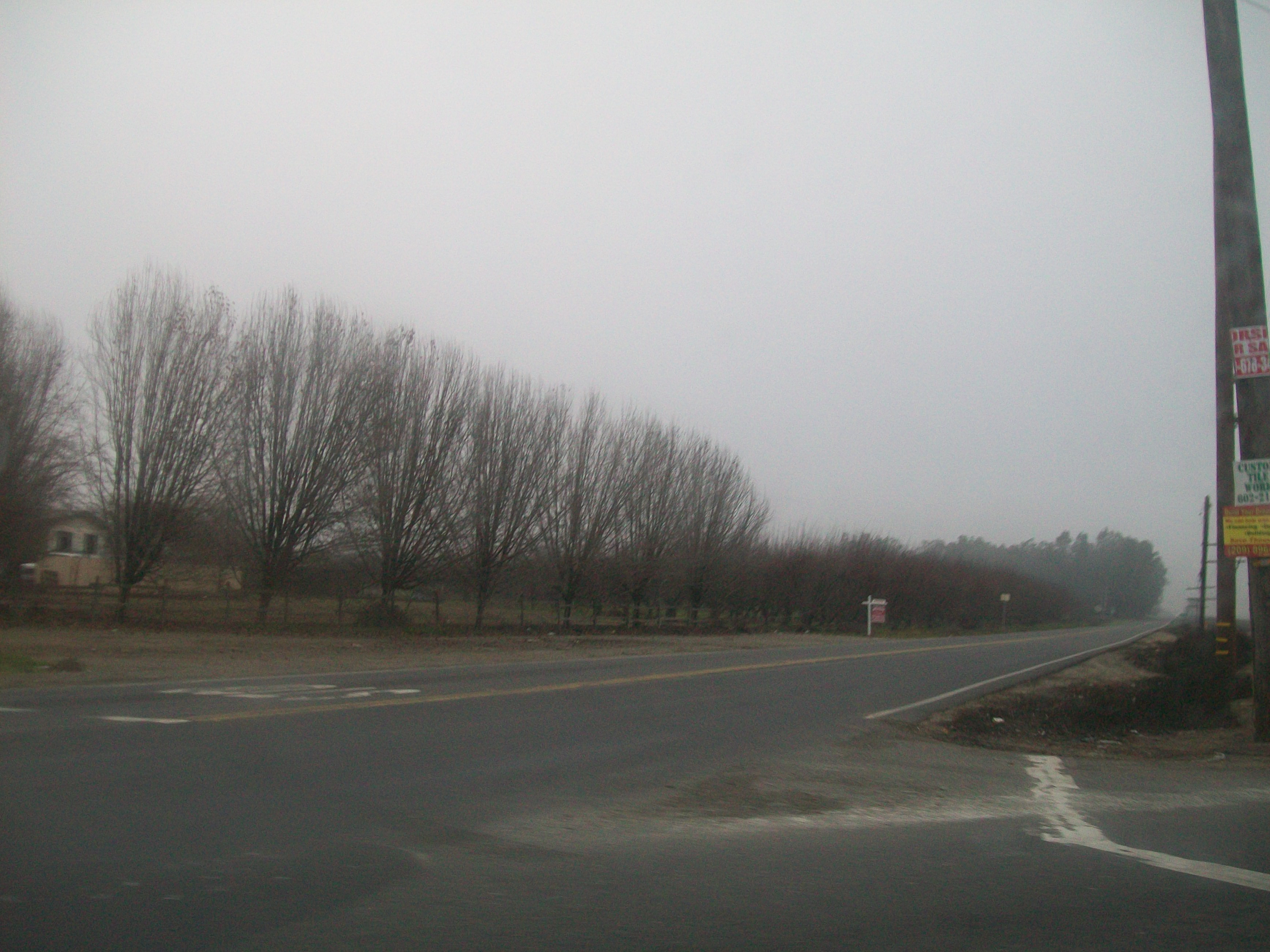 San Joaquin Valley Tule Fog in an unincorporated part of the San Joaquin Valley. Located near Oakdale, Stanislaus County, California.